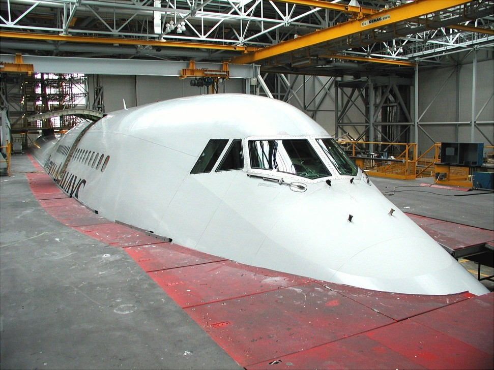 At the British Airways Maintenance Center in Cardiff, Wales